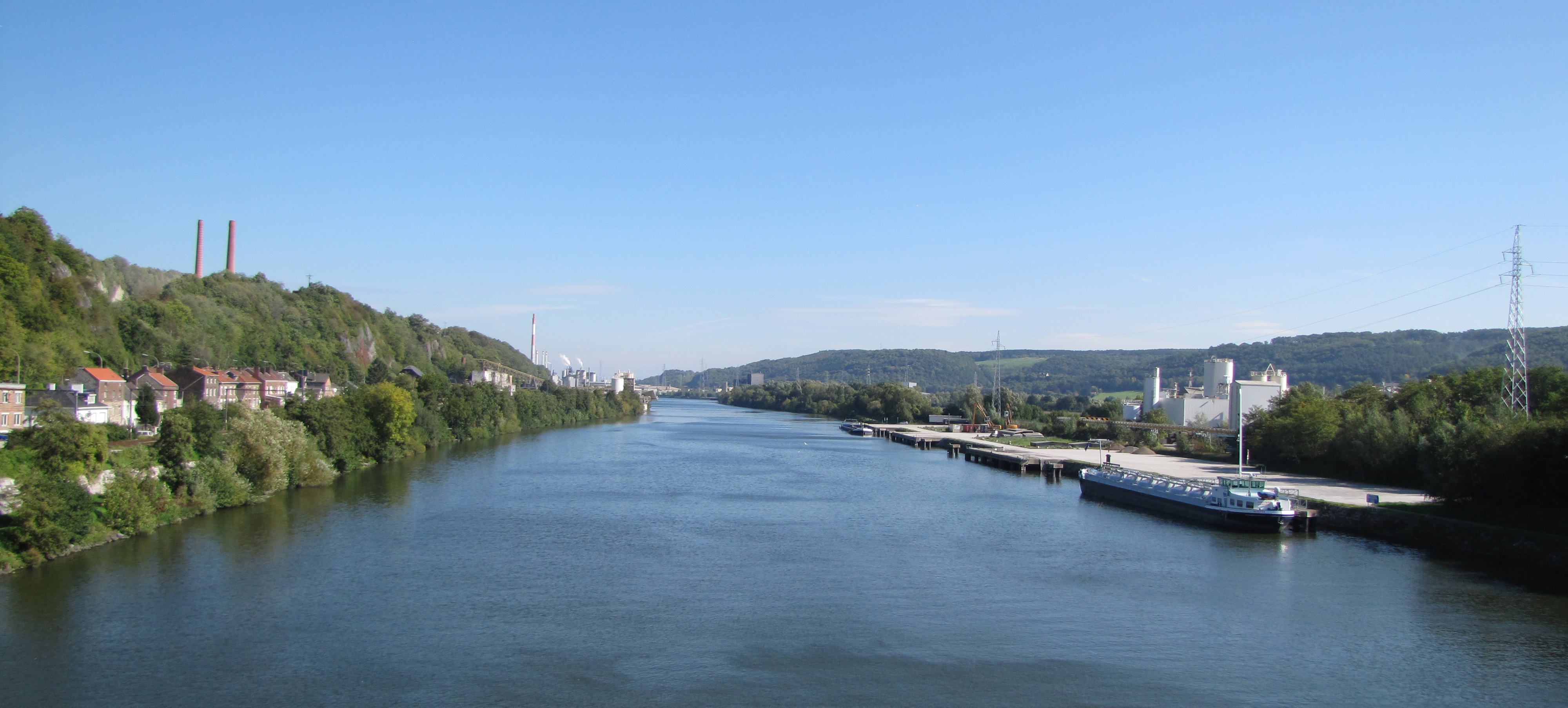 View of the port of Hermalle-sous-Huy, on the right bank of the Meuse.